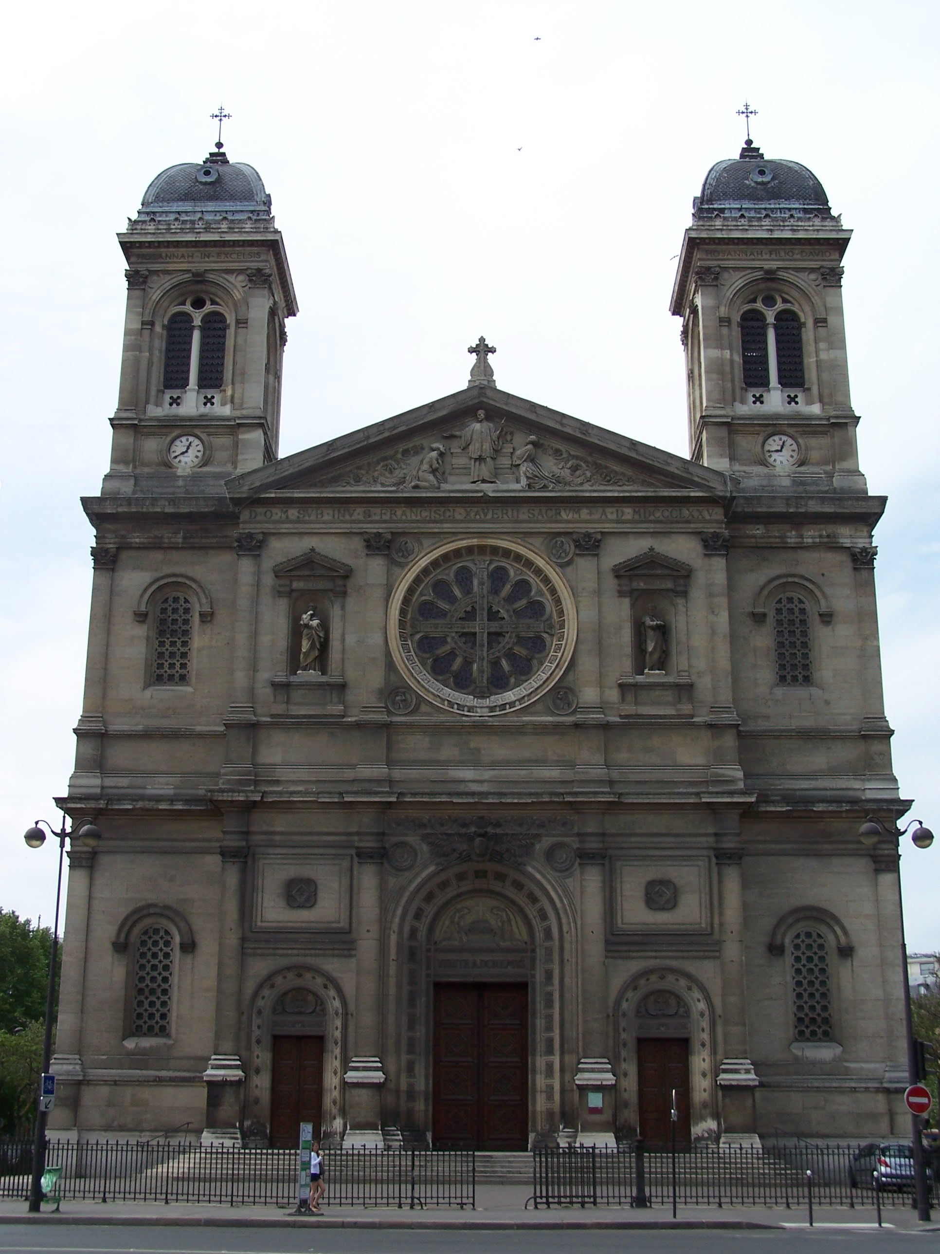 View of the Church Saint-François-Xavier in Paris